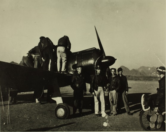 PictionID:6485508 - Catalog:01_00086162 - Title:Nakajima, Ki-43, Hayabusa 'Peregrine Falcon' Oscar 'Jim' Army Type 1 Fighter - Filename:01_00086162.TIF - Image from the Charles Daniels Photo Collection album "Seversky, Republic and P-47"----PLEASE TAG this image with any information you know about it, so that we can permanently store this data with the original image file in our Digital Asset Management System.----SOURCE INSTITUTION: San Diego Air and Space Museum Archive